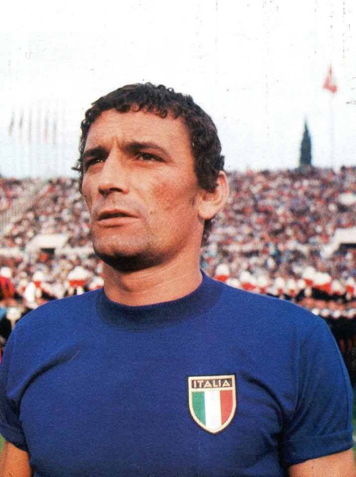 Rome, Olympic Stadium. Italian footballer Luigi "Gigi" Riva with national football team between the 1960s and the 1970s.